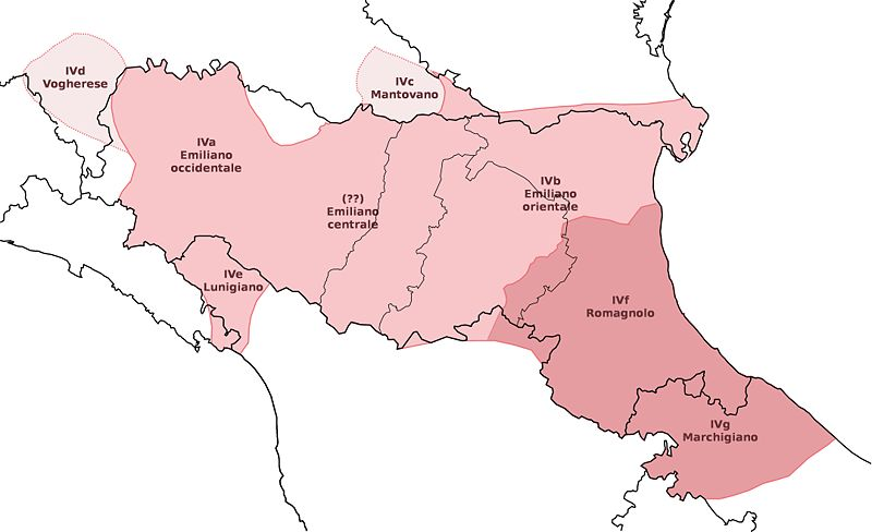 Map illustrating the diffusion of the Emiliano-Romagnolo language. Mutuated from the Emiliano-Romagnolo Wikipedia, uploaded by eml:User:Testaquèdra